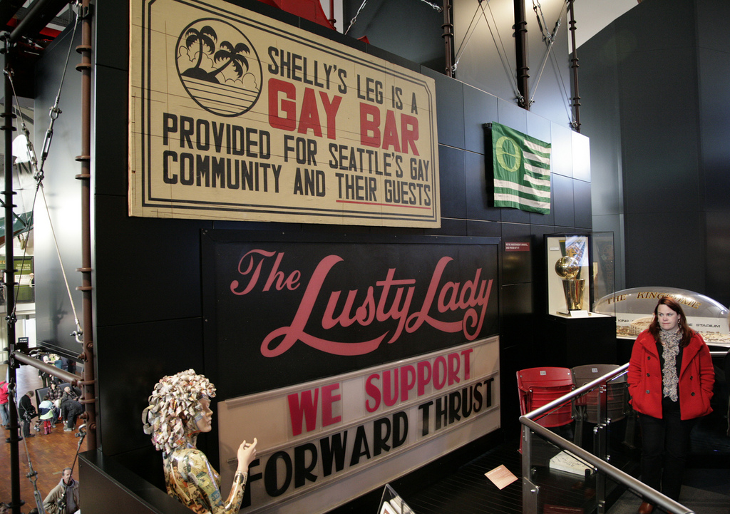 The "Changes" section of MOHAI's permanent exhibit, True Northwest. Artifacts include the Shelly's Leg sign from Seattle's first openly gay bar, the Sonic's 1979 NBA Championship trophy and the Lusty Lady marquee, famous for its clever announcements on its building in downtown Seattle. Here the sign relates to Forward Thrust, a series of major bond initiatives approved by voters in 1968 and 1970.